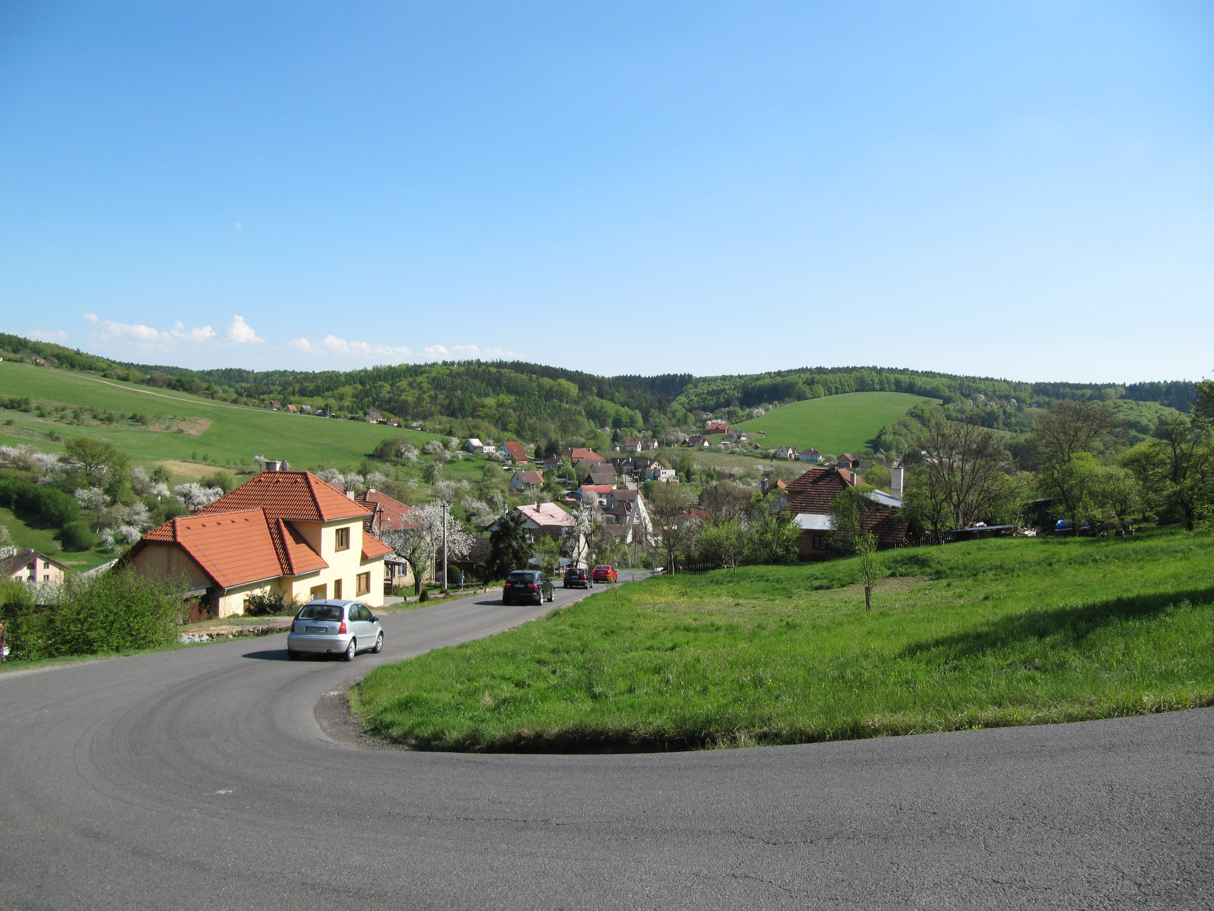 Bohuslavice u Zlína in Zlín District, Czech Republic. Arrival to the village from Napajedla.